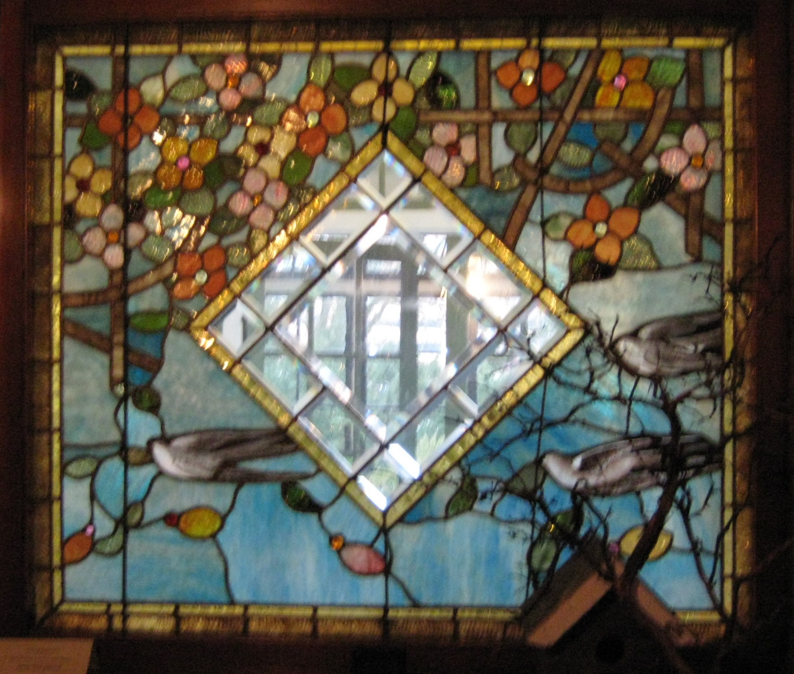 Povey Brothers stained glass in the Dr. Luke A. Port House, aka Deepwood Estate, in Salem, Oregon, United States, during a Christmas open house. The house was designed by William C. Knighton.